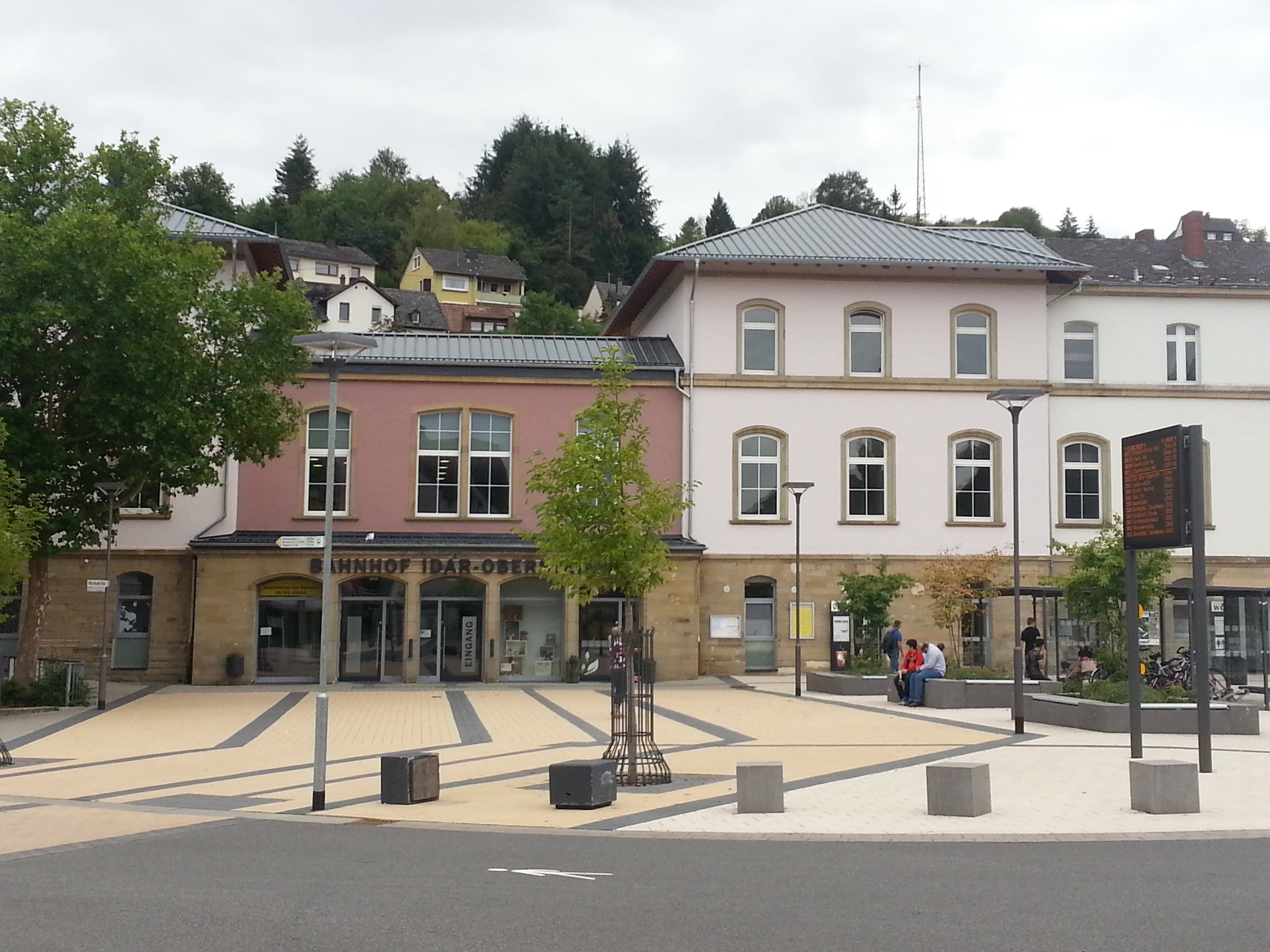 Renovated train station Idar-Oberstein in 2018